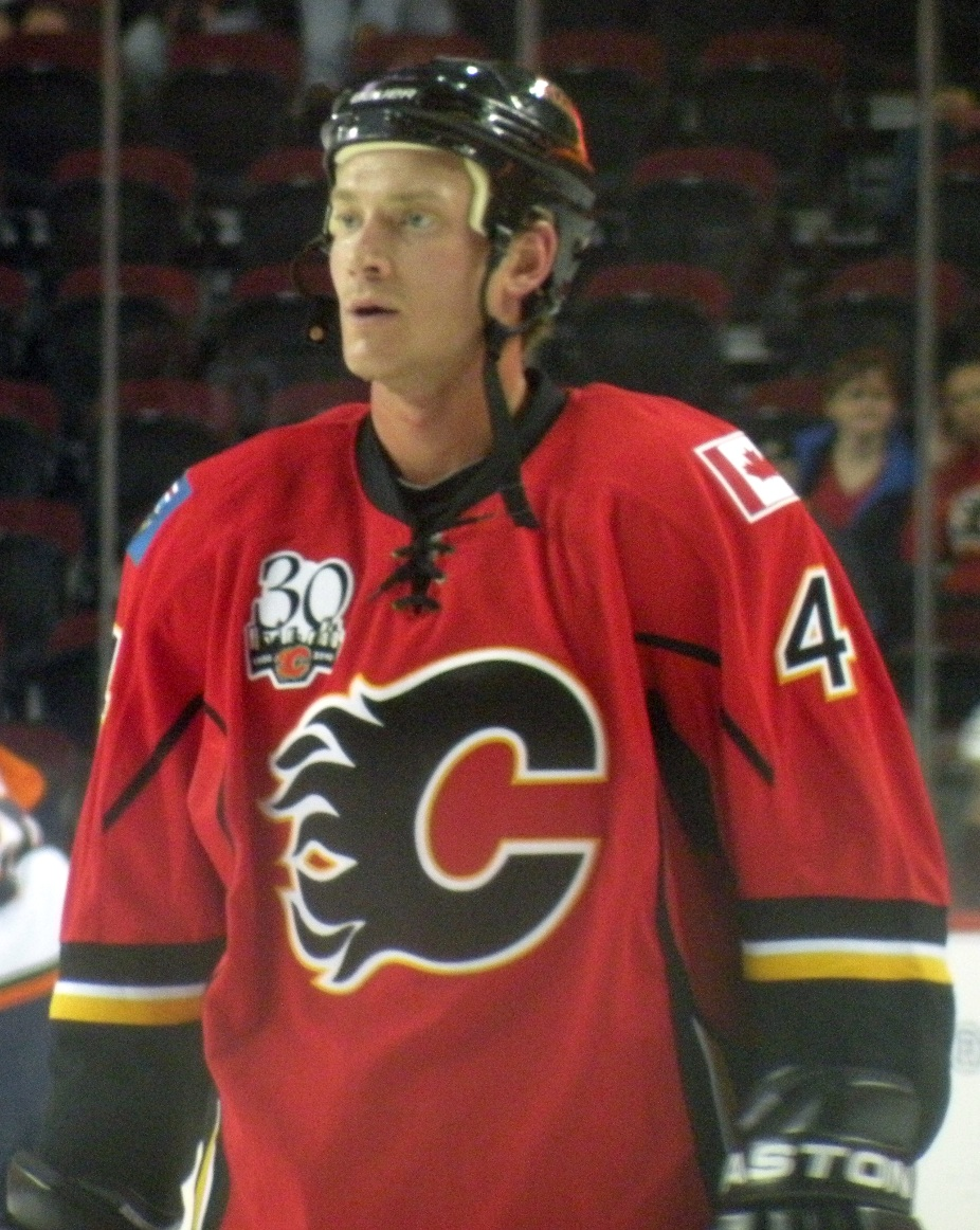 Jay Bouwmeester during warmup prior to a National Hockey League exhibition game between the Calgary Flames and New York Islanders in Calgary.